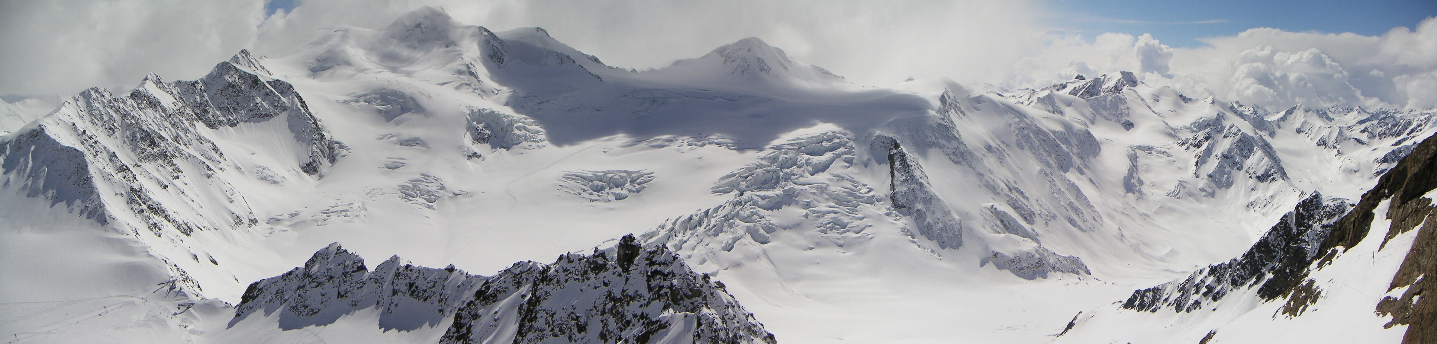 Austrian Mountain Wildspitze (3768 m, second highest mountain in Austria) seen from the Hinterer Brunnkogel (3440 m), the highest point of the ski area of the Pitztal glacier in tyrolia. Right beside is the mountain named Hinterer Brochkogel.